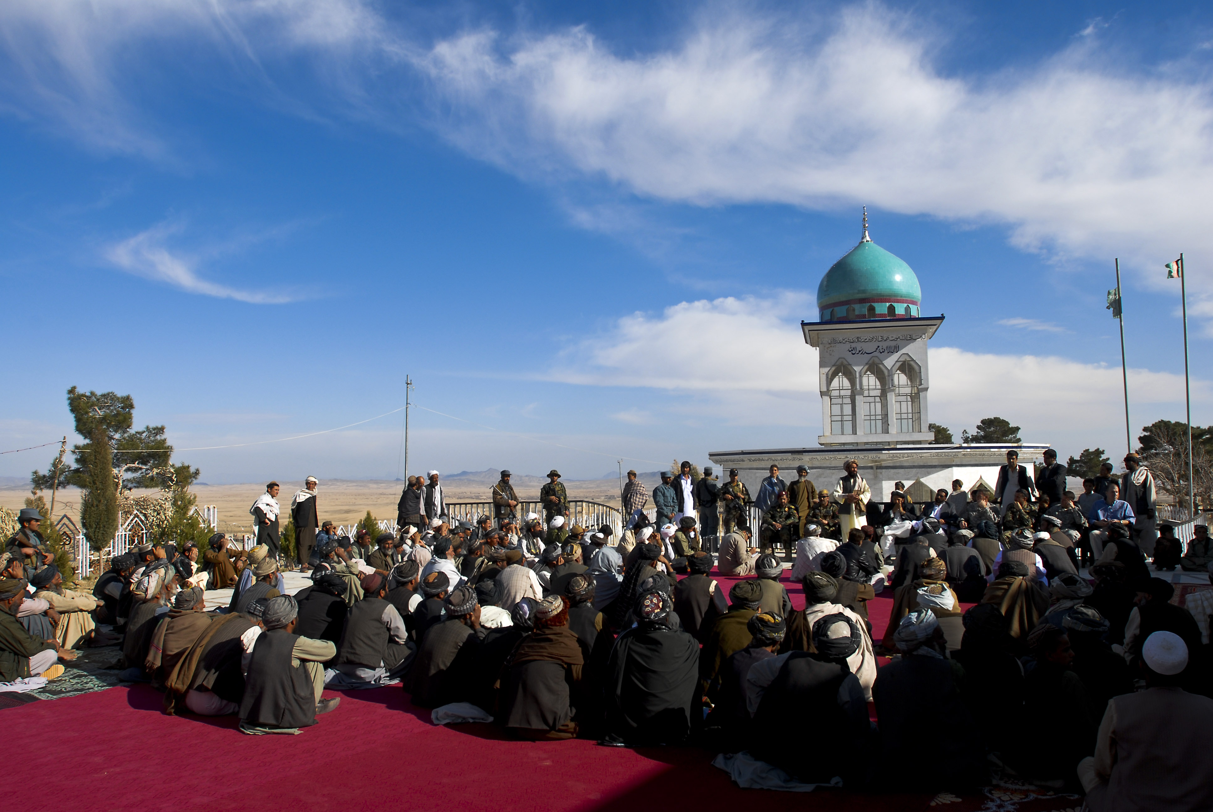 Khakrez district leaders answer questions from area residents outside the Shah Maqsud Shrine in Khakrez district, Kandahar province, Afghanistan, following a groundbreaking ceremony March 10, 2011, outside the district center. The ceremony marked the beginning of construction on a project to improve Route Highlife, a 20-mile stretch of road connecting the district center to Kandahar City. (U.S. Army photo by Staff Sgt. Jeremy D. Crisp)(Released).